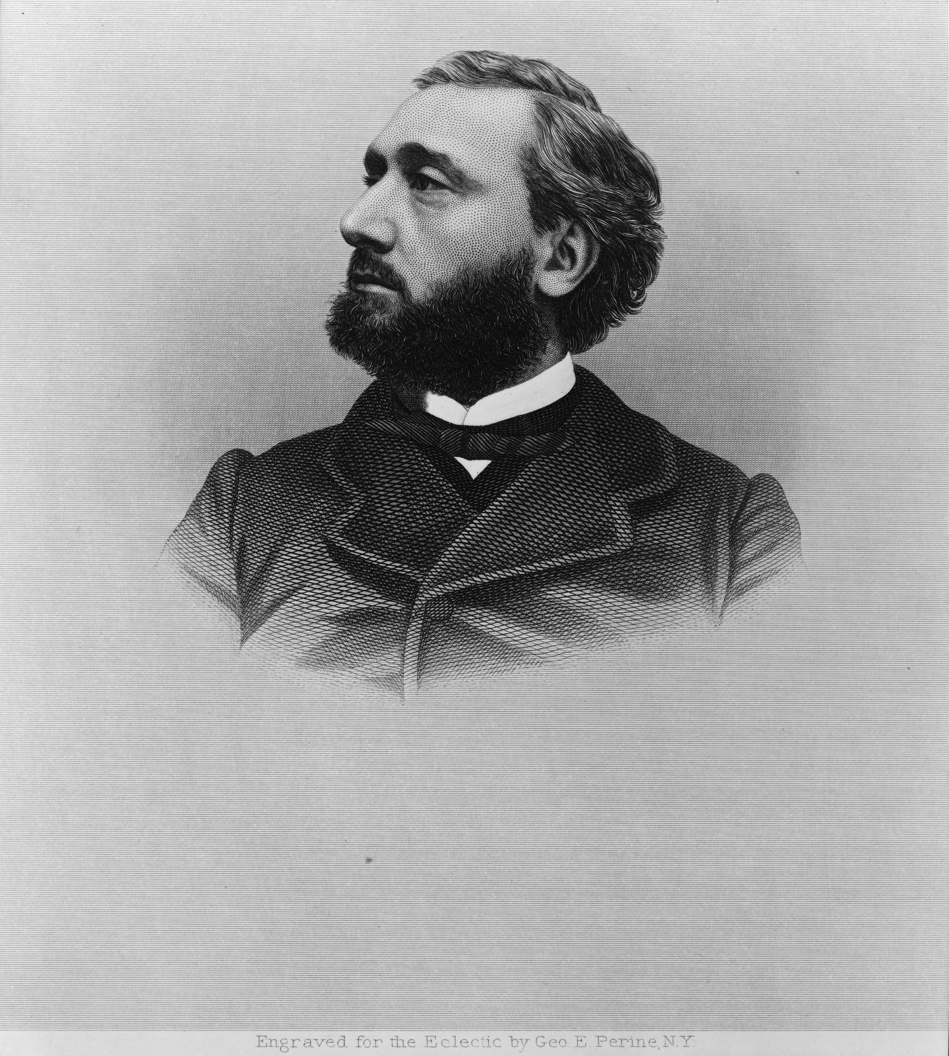 An engraving of French politician Léon_Gambetta.